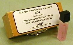 a solution of 4% holmium oxide in 10% perchloric acid, permanently fused into a 1 cm pathlength quartz cuvette. The wavelength values of the transmittance minimum of 14 absorption bands is certified to a wavelength uncertainty of about 0.2 nm, with the actual uncertainty varying with the band and the instrumental spectral bandwidth. The standard is certified for spectral bandwidths from 0.1 nm to 3.0 nm, and for wavelengths from 240 nm to 650 nm.